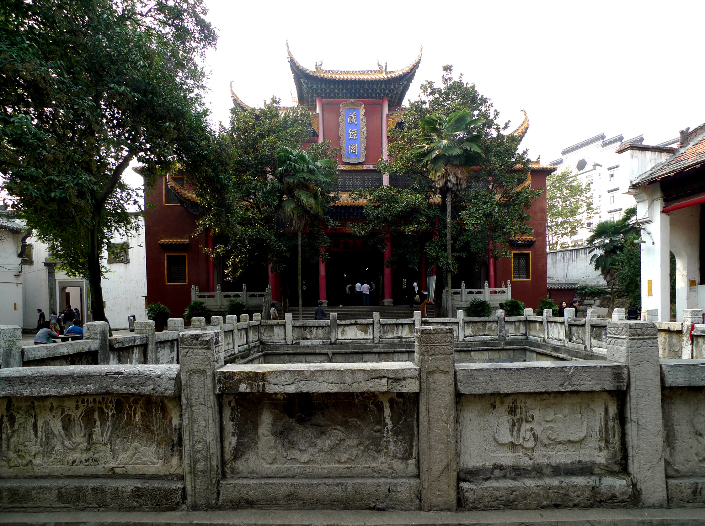 Guiyuan Temple library